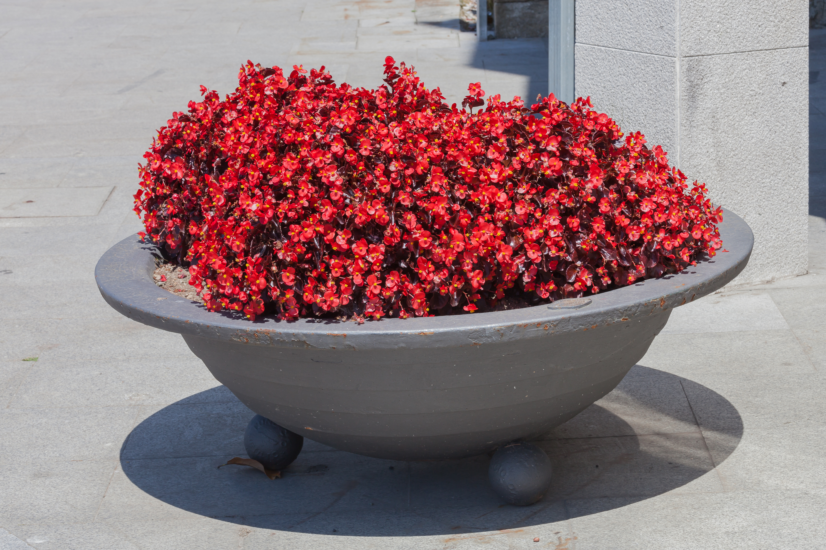 Flowerpot, Rianxo. Galicia (Spain).